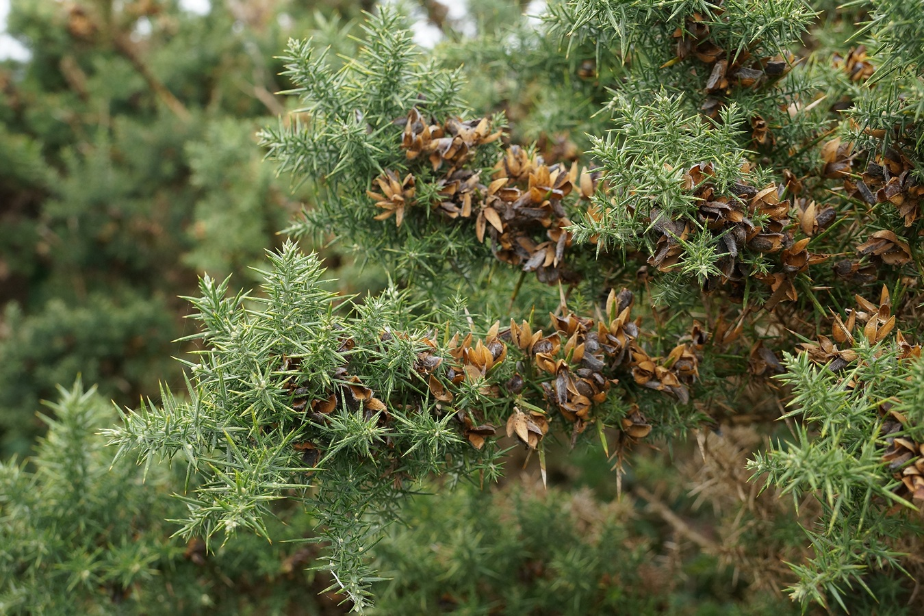 Ulex sp. Колючий дрок, утёсник, Улекс Very thorny plant, which produces dramatic, bright yellow flowers in spring. Though far from exclusively Scottish, gorse, sometimes called whins in Scotland, brightens up the lowland landscapes throughout the country. Mallaig.